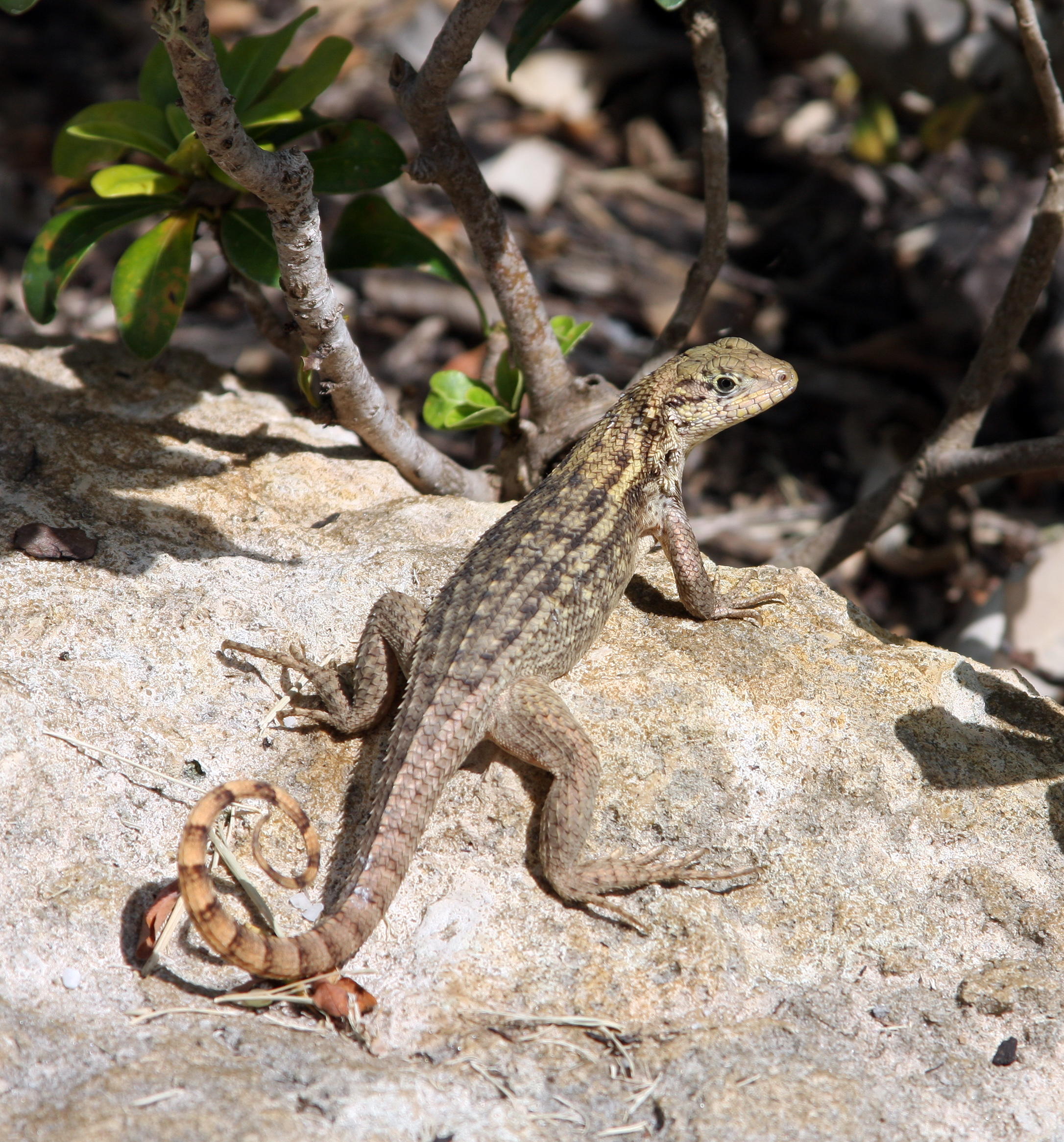 Northern curly-tail lizard (Leiocephalus carinatus armouri) in Morikami Gardens, Delray Beach, Florida